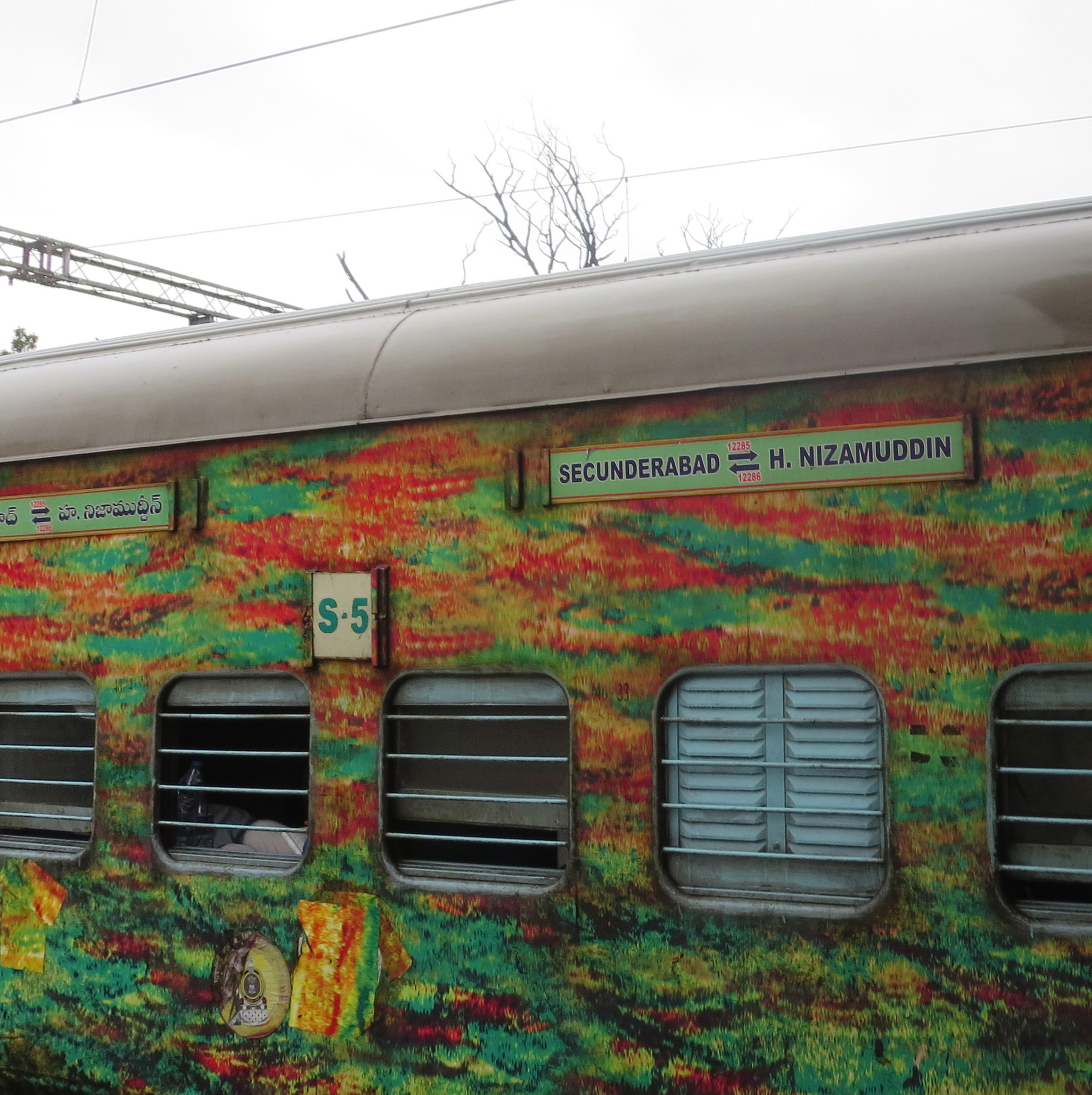 Name board of Secunderabad - Hazrat Nizamuddin Duronto Express